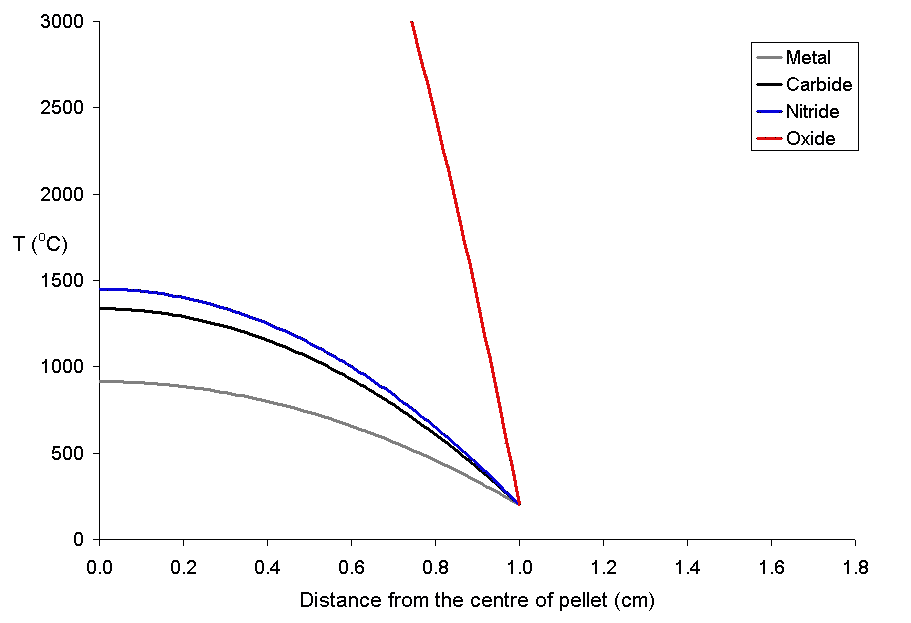 Nuclear fuel temp calcs